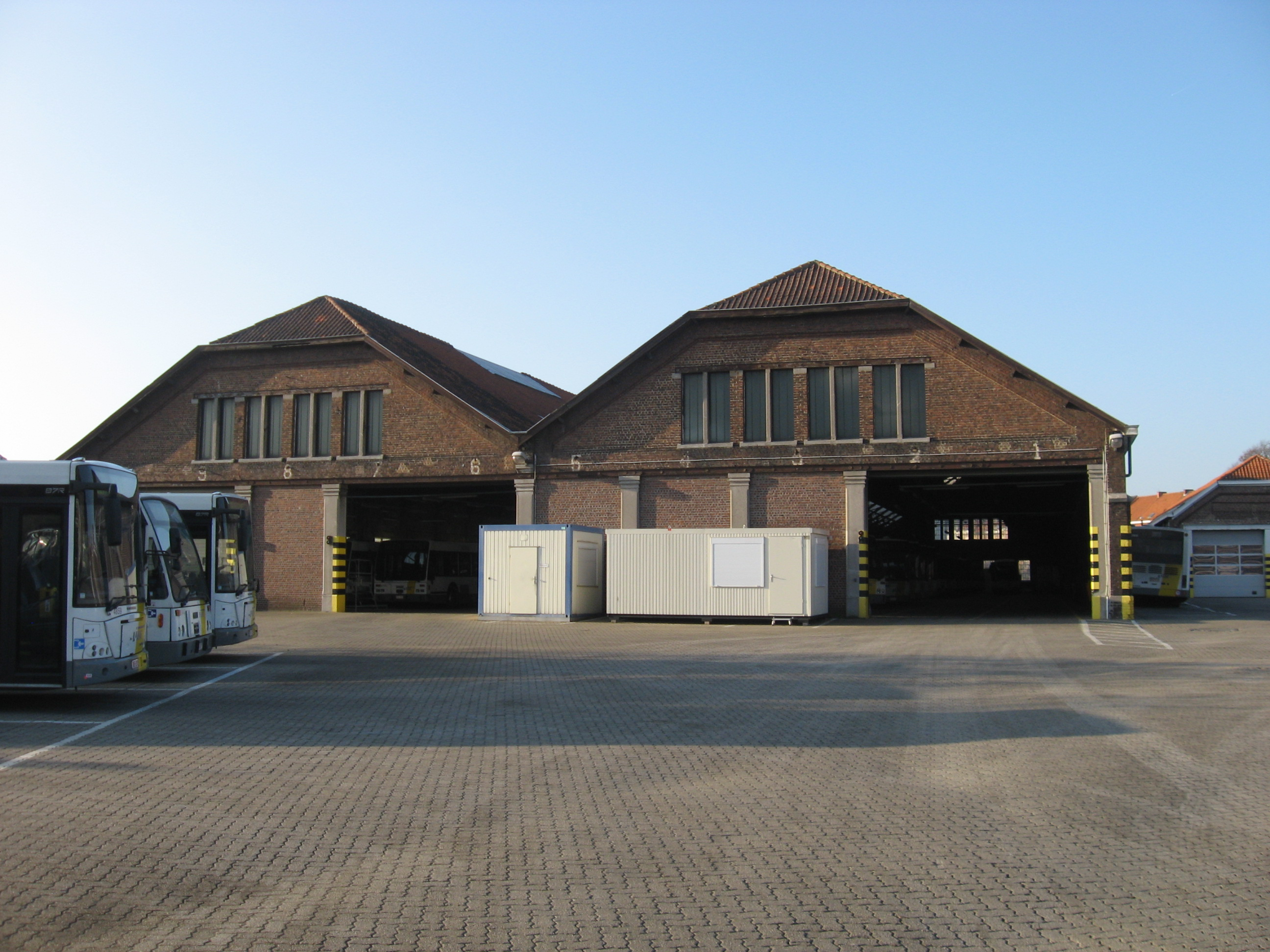 Old vicinal tram depot at Grimbergen converted to bus use.